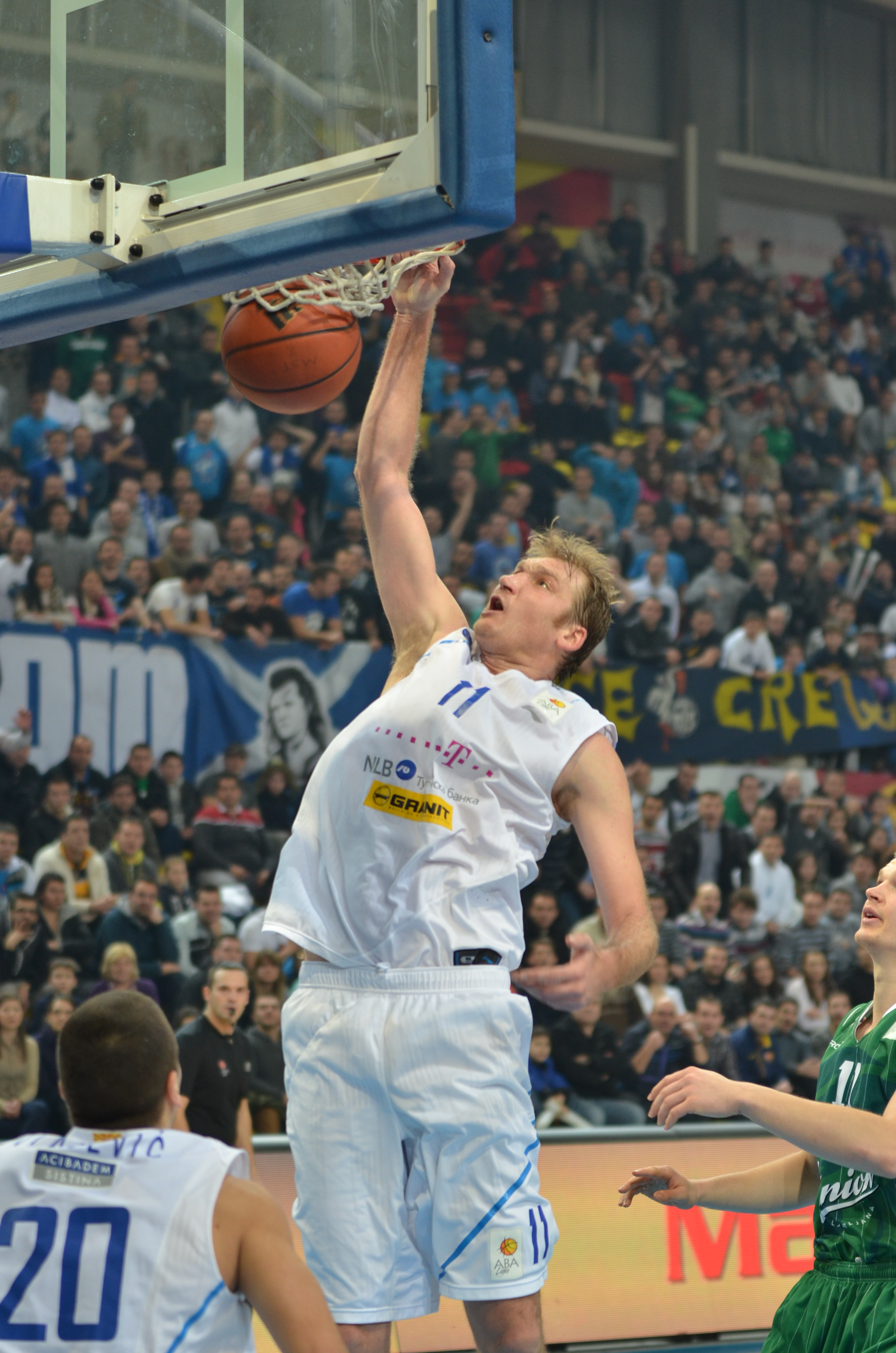 ТошГе